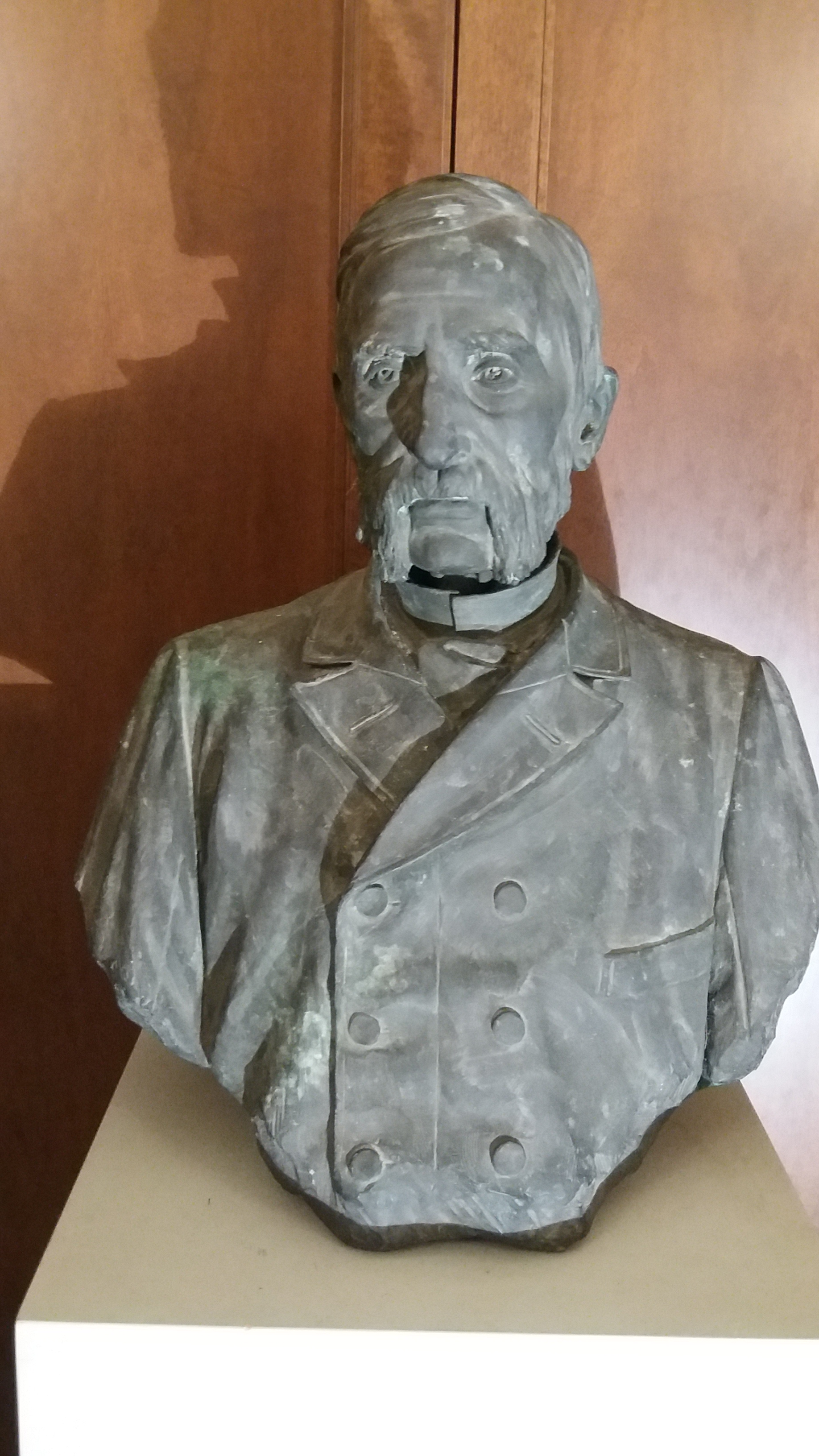 Bronze bust of Ermenegildo Castiglioni